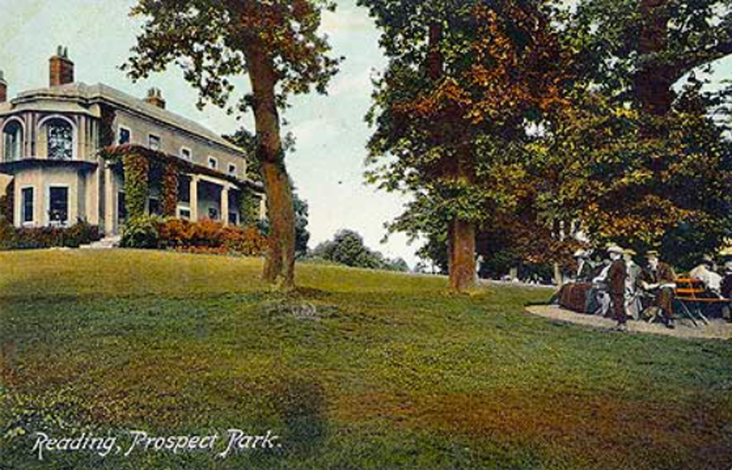 Coloured postcard of Prospect Park, Reading, Berkshire, 1910